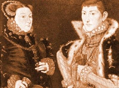 The portrait was formerly thought to be of Frances Brandon and her second husband Adrian Stokes.